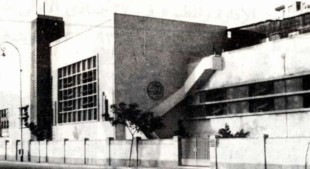 Boulaq Amiryia Print House